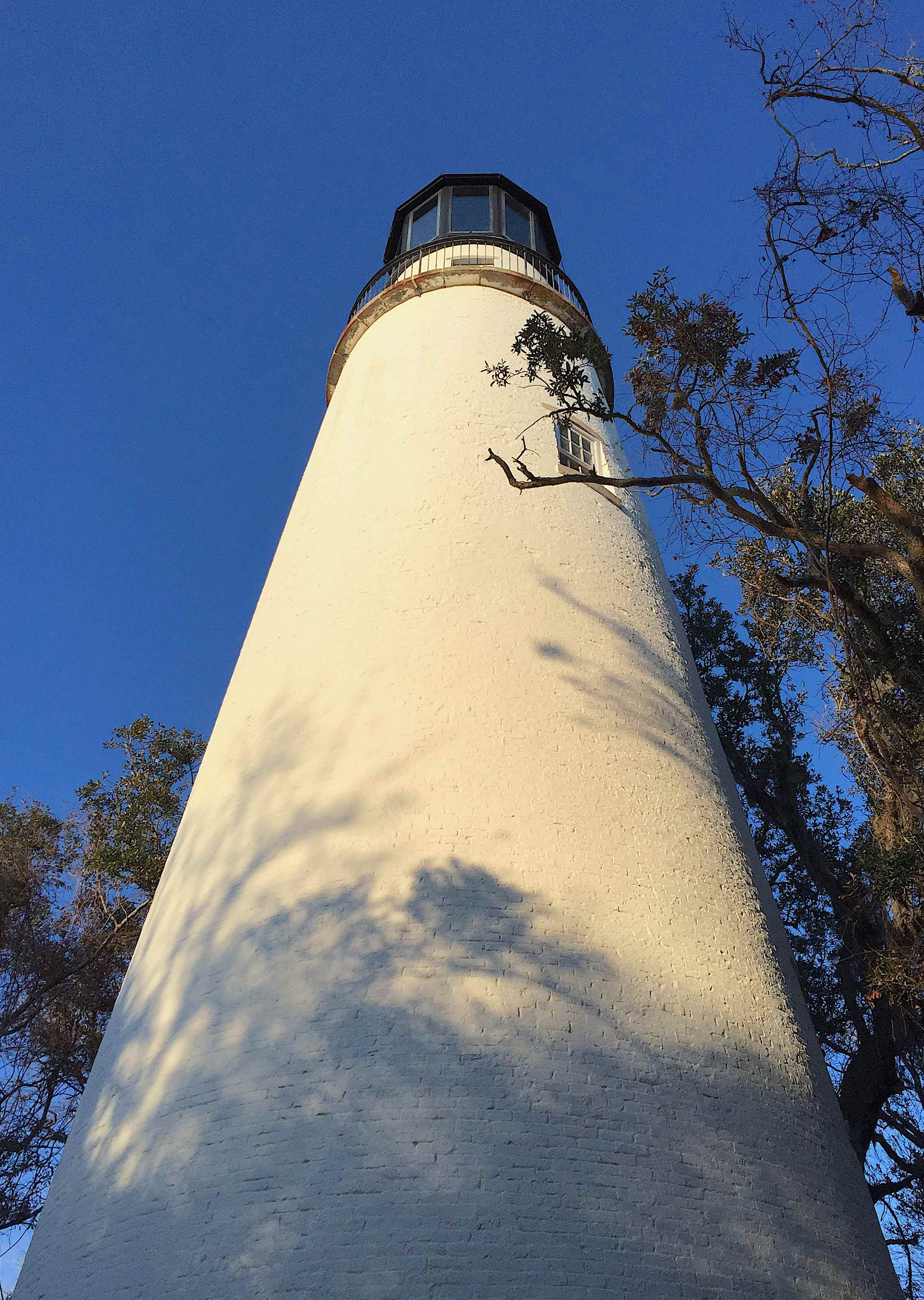 Photograph of the Little Cumberland Island lighthouse after its restoration in 2016.